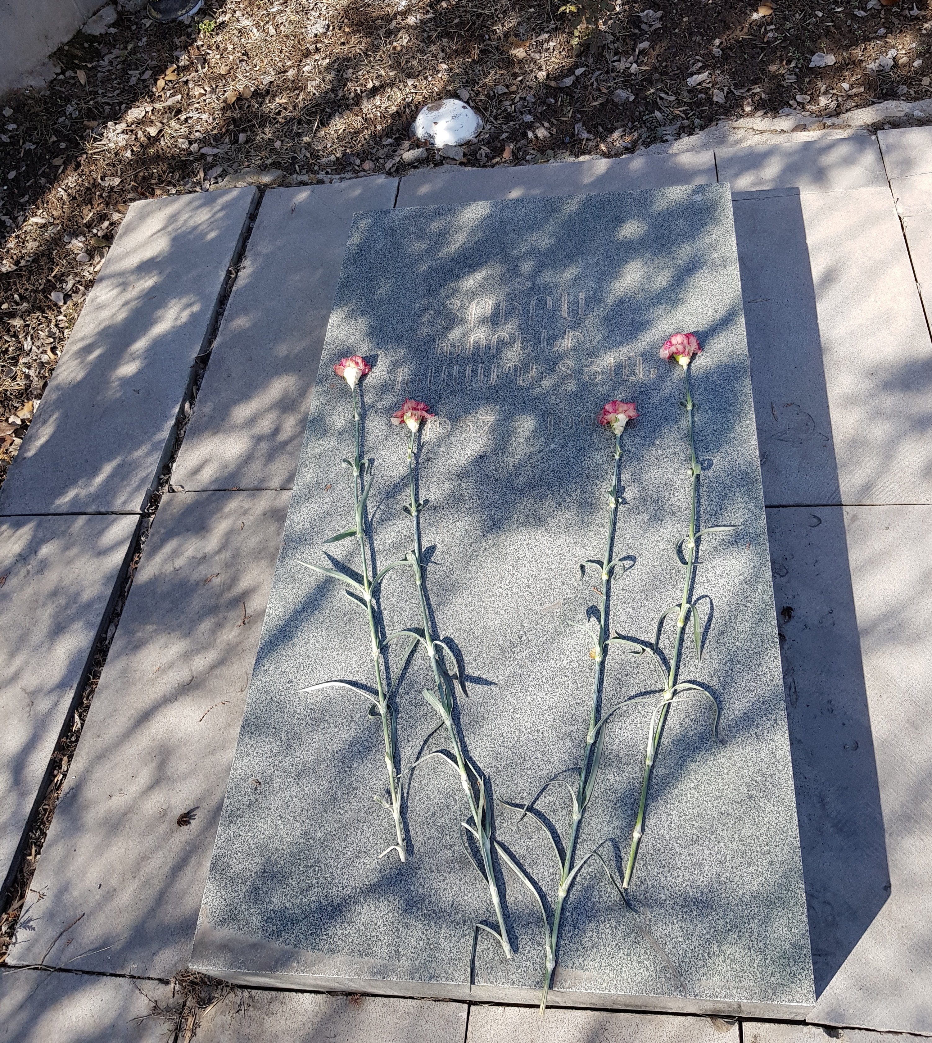 Tatoul Krpeyan Park